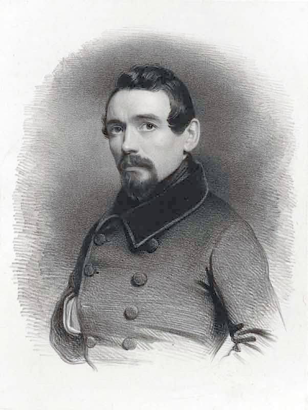 Portrait of Paul Lauters (1806-1875), Belgian artist